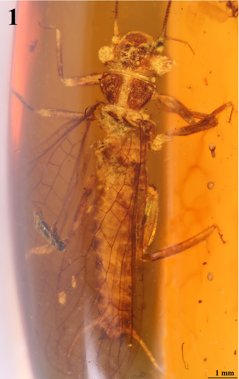 FIGURES 1–7. Largusoperla acus, holotype male. 1. Habitus, dorsal view